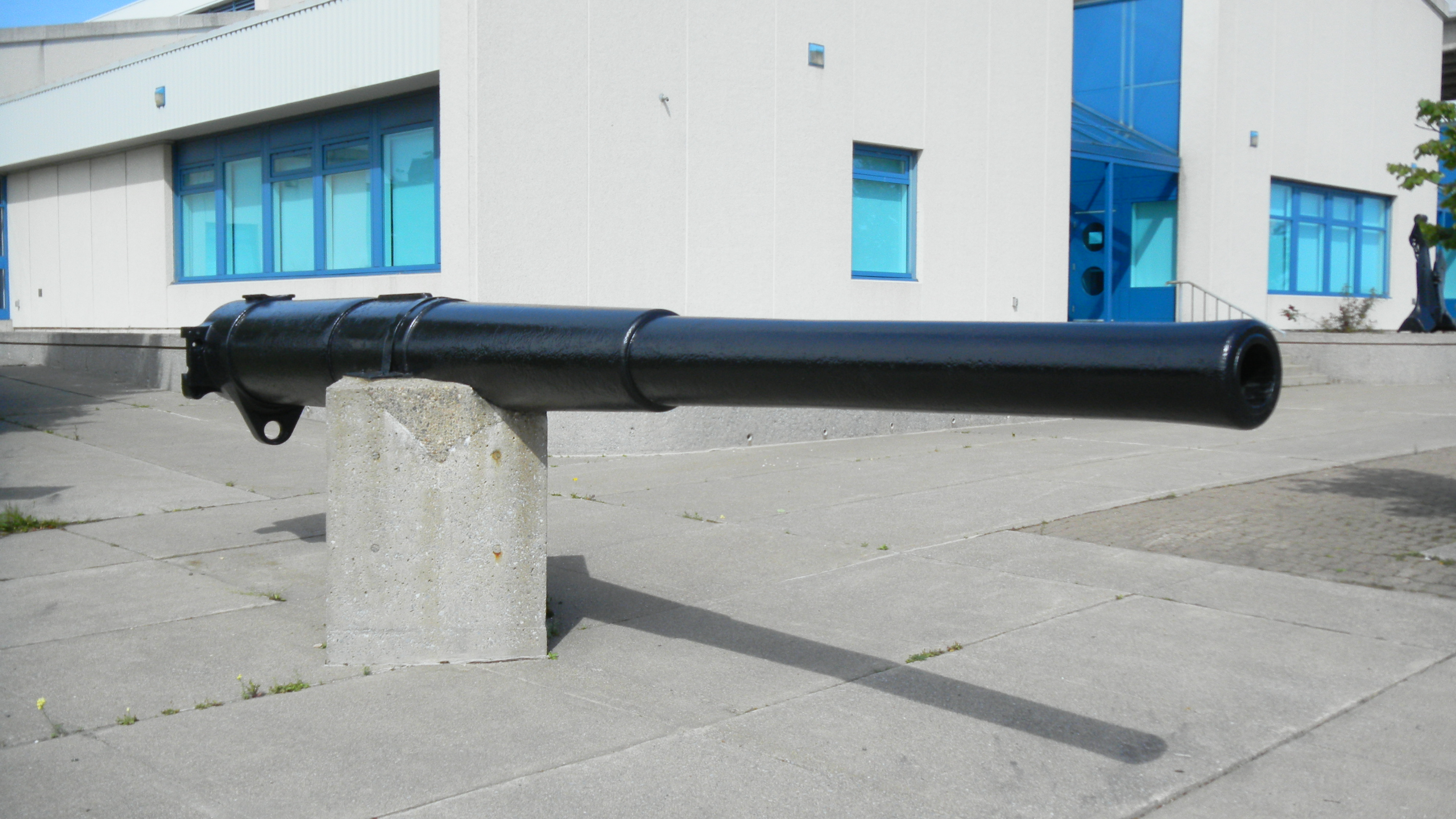 6-inch H.E.D.C. Mk. II Gun, HMCS Brunswicker, Saint John, New Brunswick. HMS Niobe was a ship of the Diadem-class of protected cruiser in the Royal Navy. She served in the Boer War and was then given to Canada as the first ship of the then newly-created Royal Canadian Navy as HMCS Niobe. Two of HMCS Niobe’s guns were later used as part of New Brunswick’s coastal defences, one is on display at the entrance to HMCS Brunswicker, Saint John, New Brunswick, and the second is on display at the 3rd Field Regiment Armoury, also in Saint John, New Brunswick.